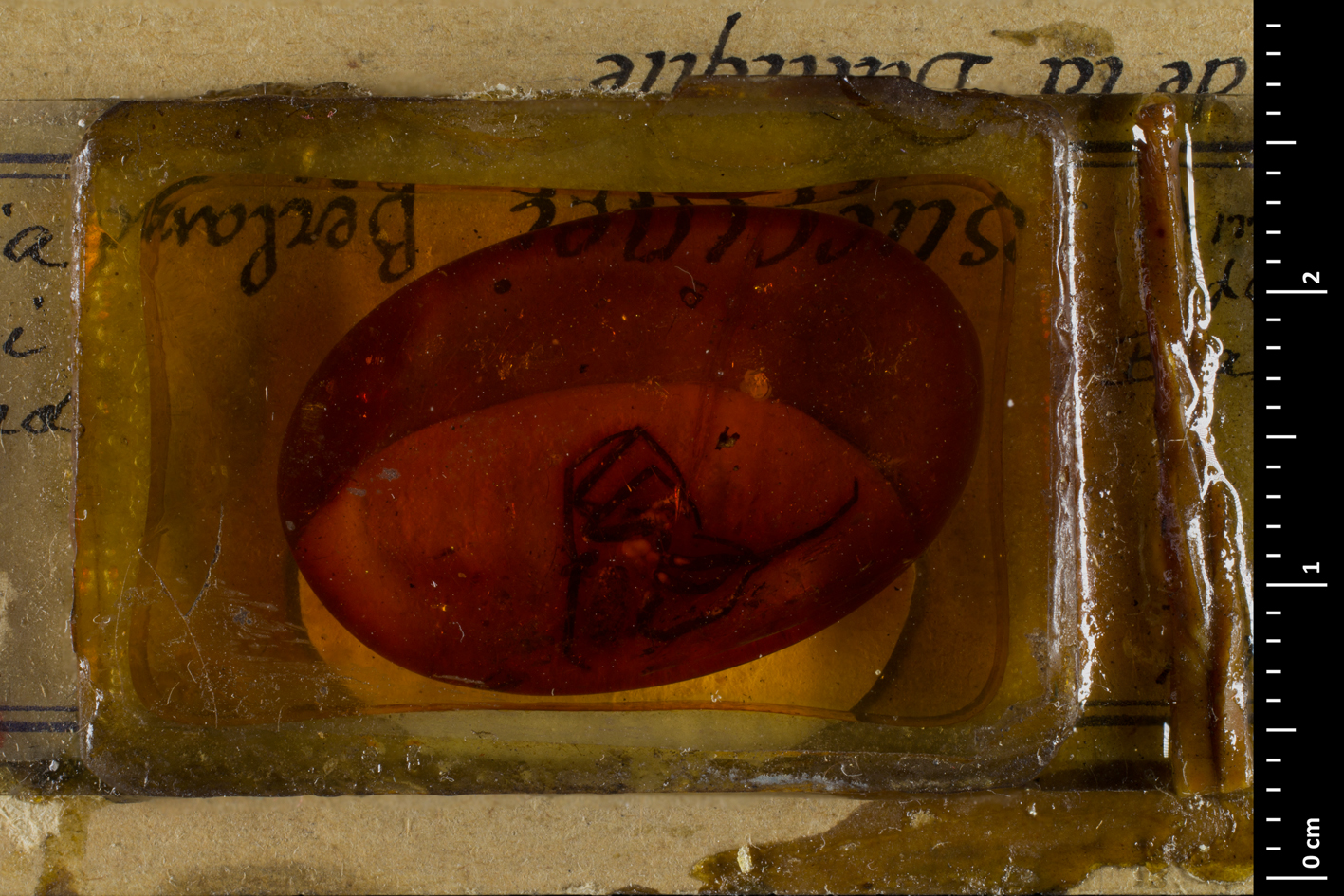 The holotype of Segestria succinei, Eocene, Baltic amber; Muséum national d'Histoire naturelle specimen MNHN.F.R25198